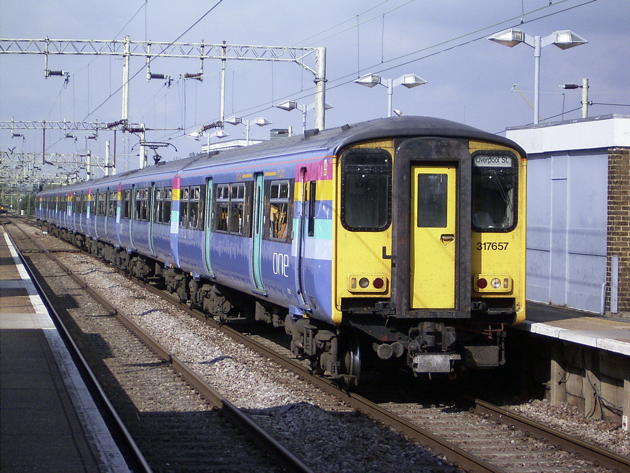 class 317/2 No.317657 with ONE livery at Broxbourne